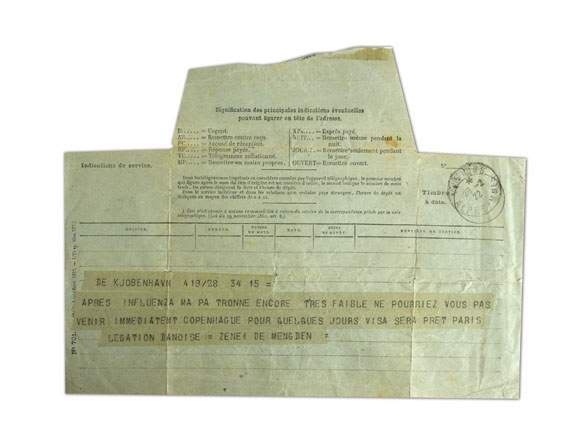 Telegramma from the Empress Maria Feodorovna's maid of honor to Dr. Boris Malama